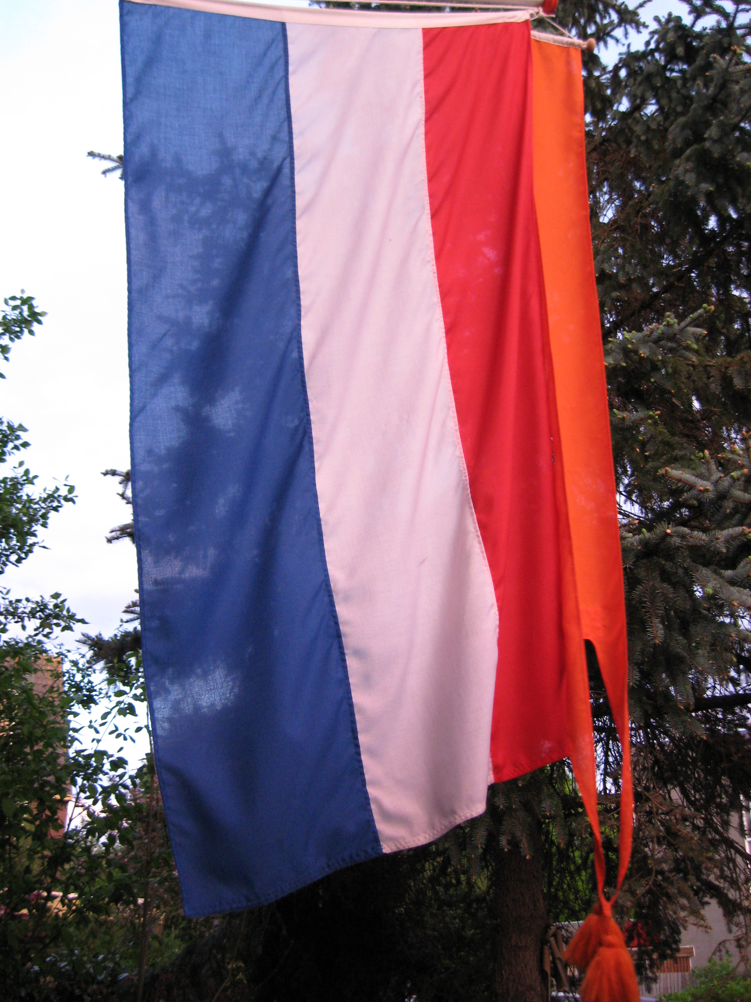 Dutch national flag with Orange pennant as used on "Queensday"(30th of april) and other occasions related to the Royal family